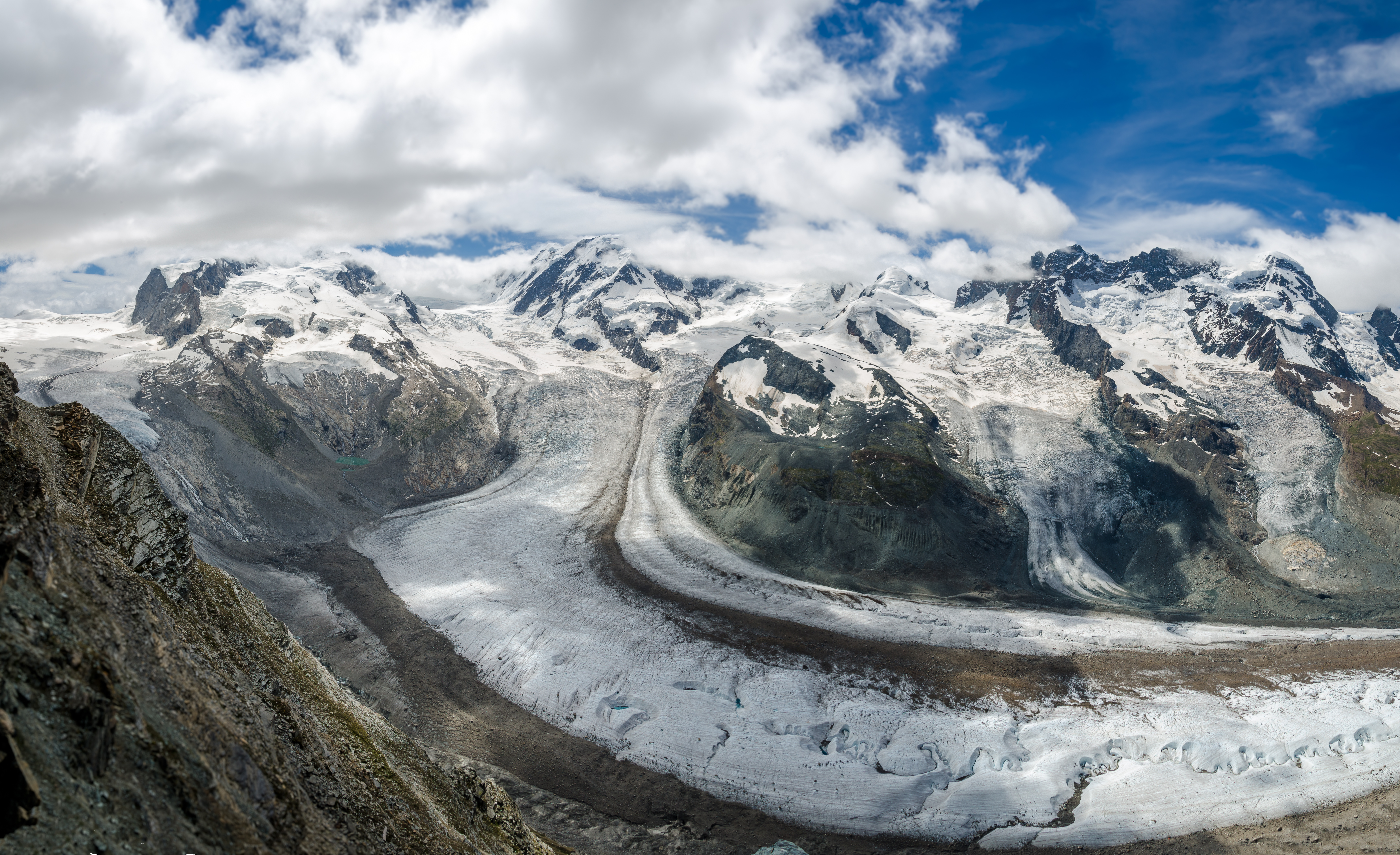 Central Monte Rosa massif to the left with Dufourspitze and Nordend. The Monte Rosa Glacier right below on its western wing, the upper Gorner Glacier on the left, and the Grenzgletscher to the right.